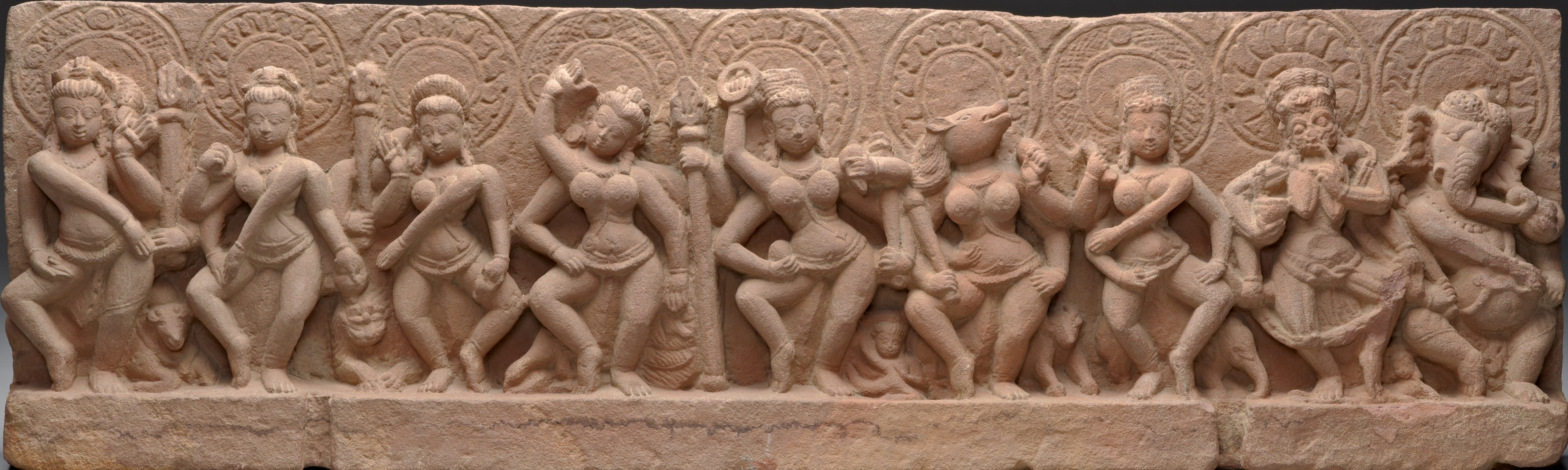 The image is a derivative work of the following wikimedia image: Details: The Seven Mother Goddesses (Matrikas) Flanked by Shiva-Virabhadra and Ganesha, Lord of Obstacles (image 1 of 4) India, Madhya Pradesh, 9th century Sculpture Red sandstone Gift of Paul F. Walter (M.80.157) Current location of sculpture: Los Angeles County Museum of Art